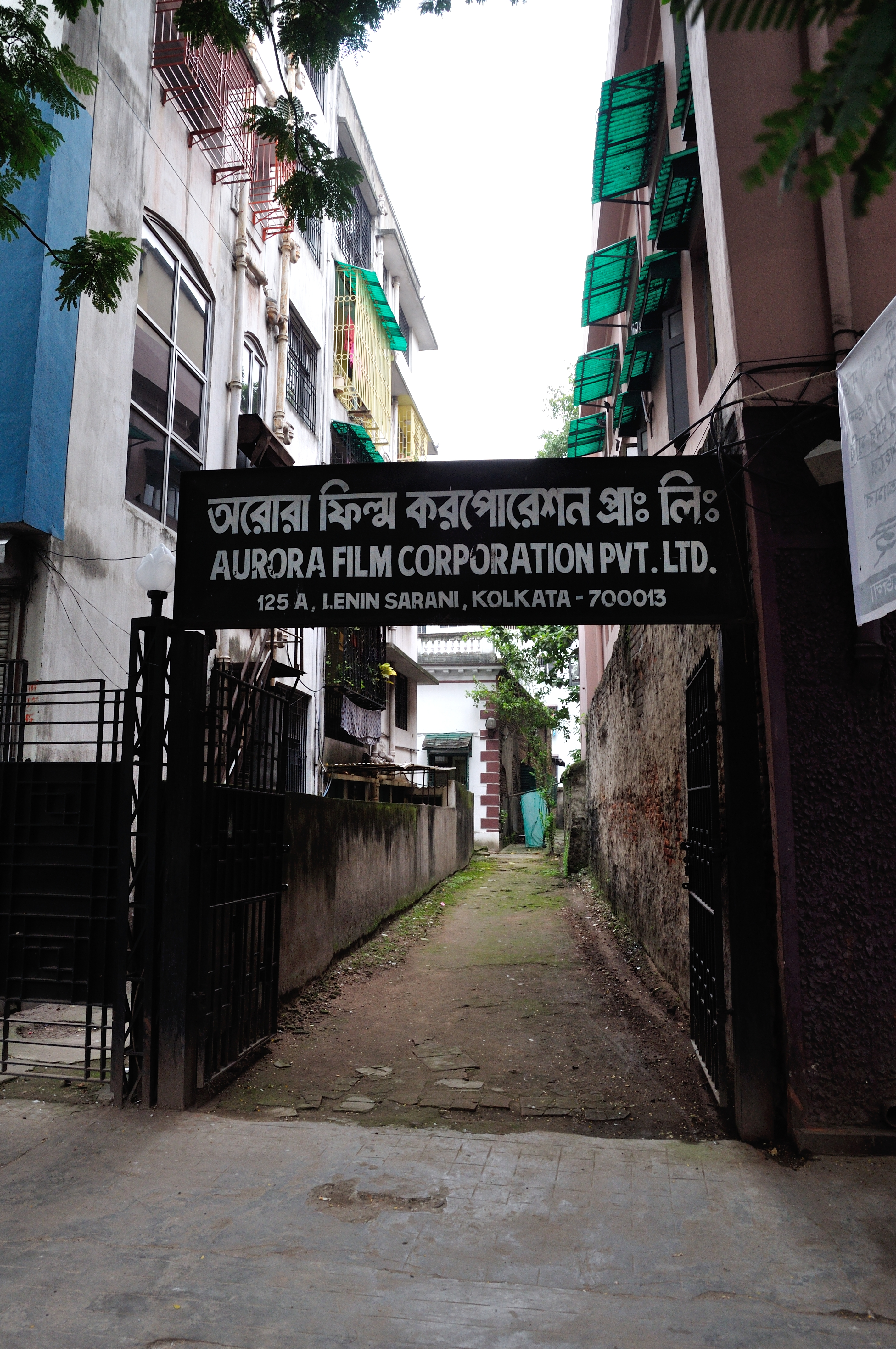 Photographed in Kolkata, India.